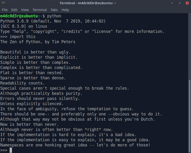 Long time Pythoneer Tim Peters succinctly channels the BDFL's guiding principles for Python's design into 20 aphorisms, only 19 of which have been written down.